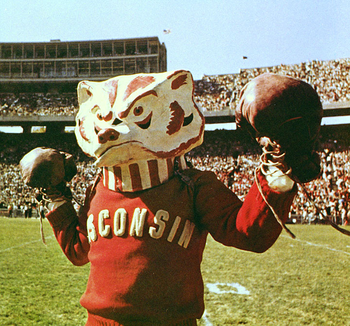 Bucky Badger wears boxing gloves at a University of Wisconsin--Madison football game, 1965. UW Digital Collections